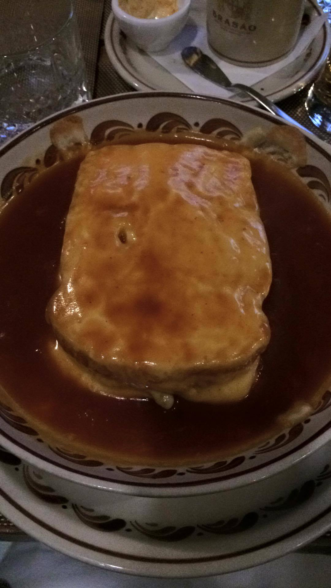 Francesinha Porto 2016